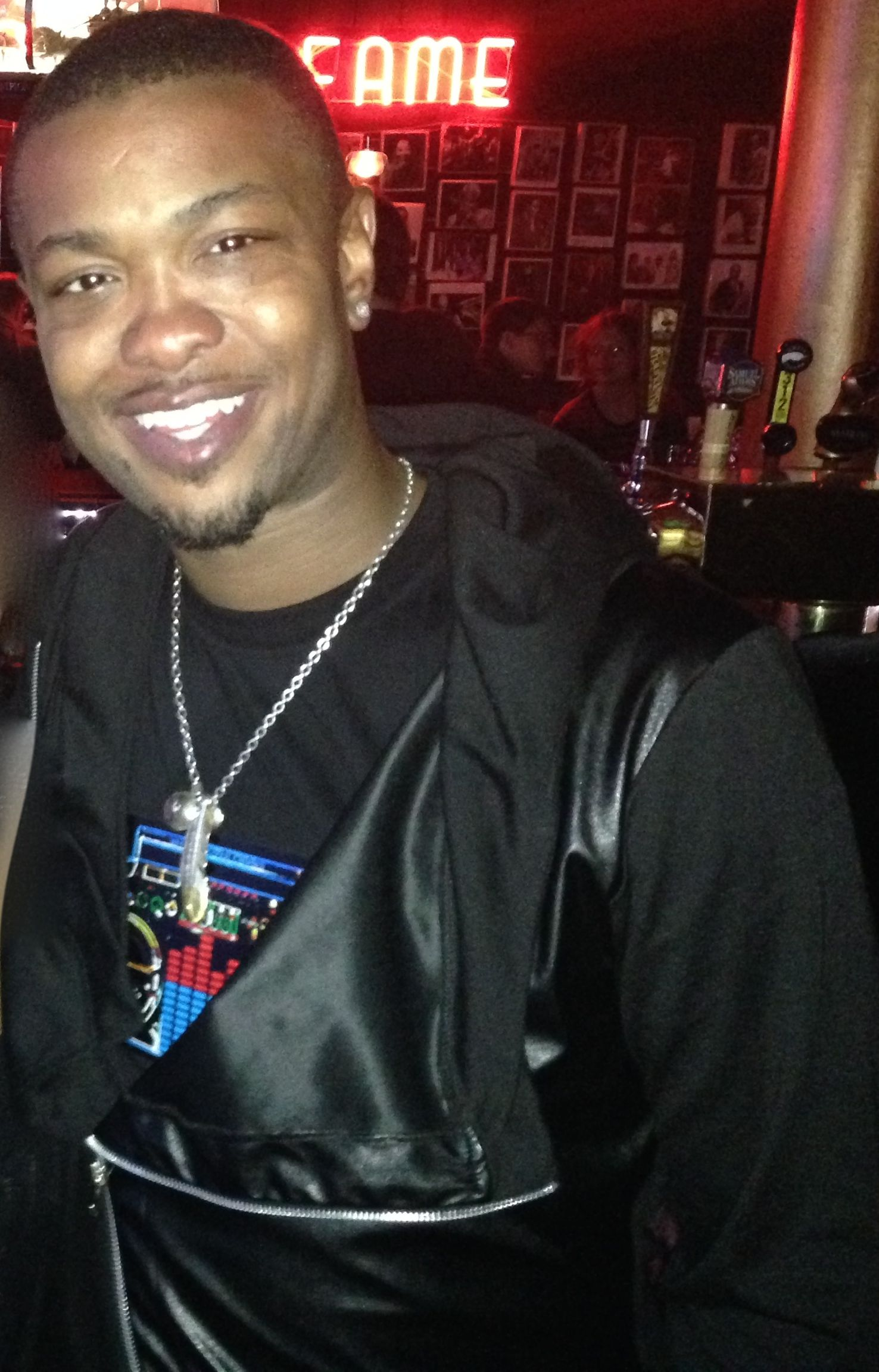 Maurice "Mobetta" Brown at Andy's Jazz Club-Chicago IL